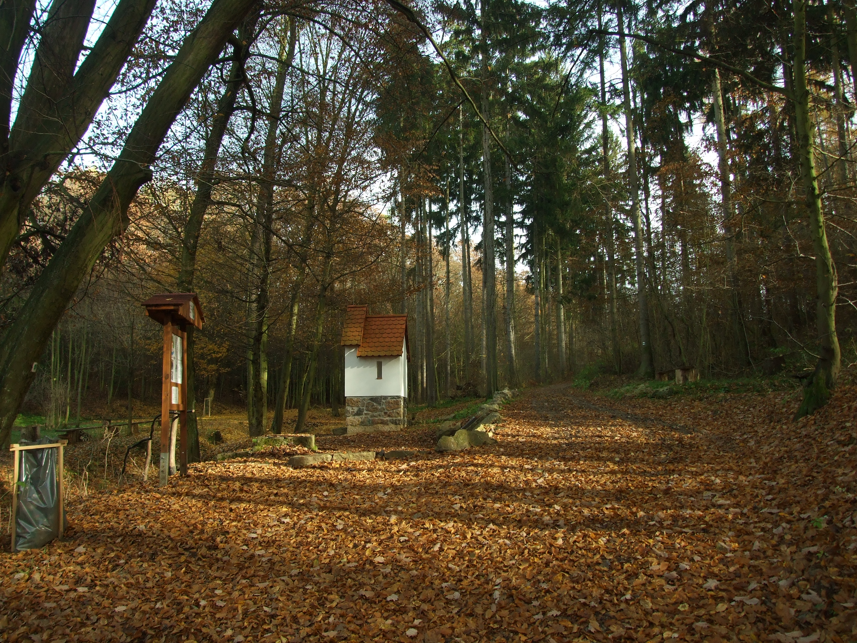 Chapel in a forest near Vysoký Újezd in Central Bohemian Region, CZ